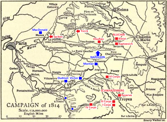 Based on File:Campaign of 1814 by Emery Walker cropped.png. Troop positions were added by D.J. Maschek. The original was created in 1911 for Encyclopedia Britannica by Emery Walker.